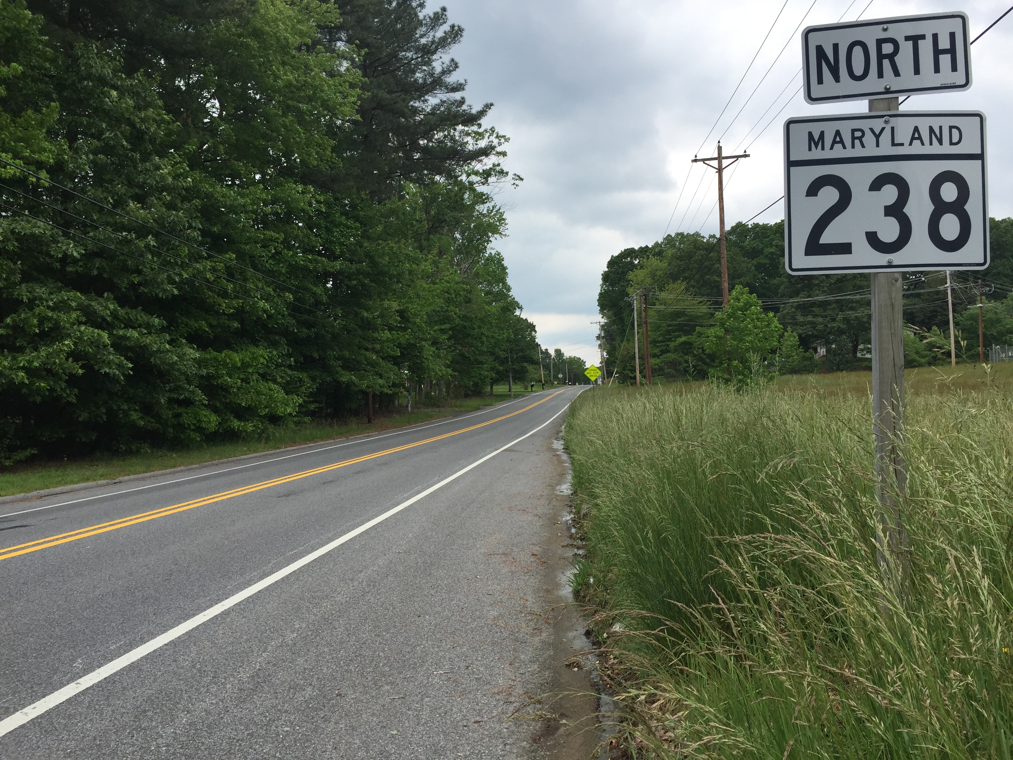 View north along Maddox Road (Maryland State Route 238) near Colton Point Road (Maryland State Route 242) in Bushwood, St. Mary's County, Maryland